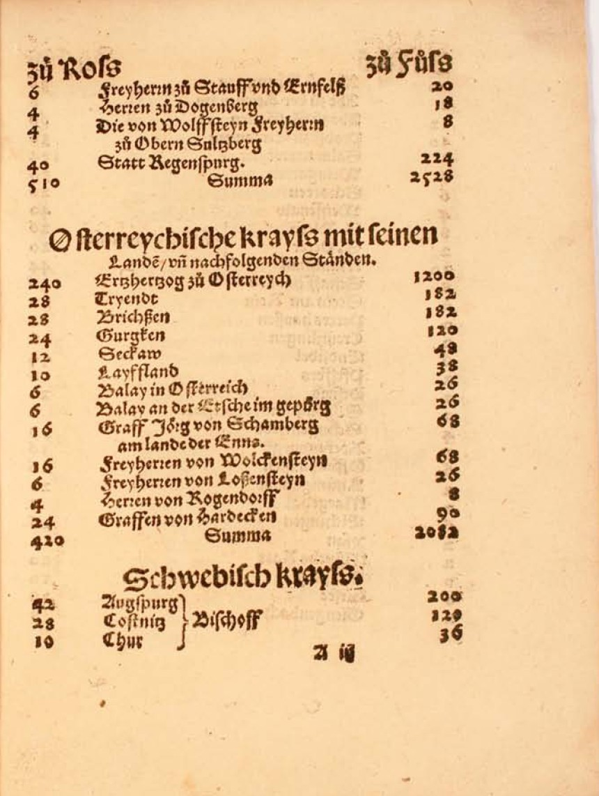 This is a scan of the historical document